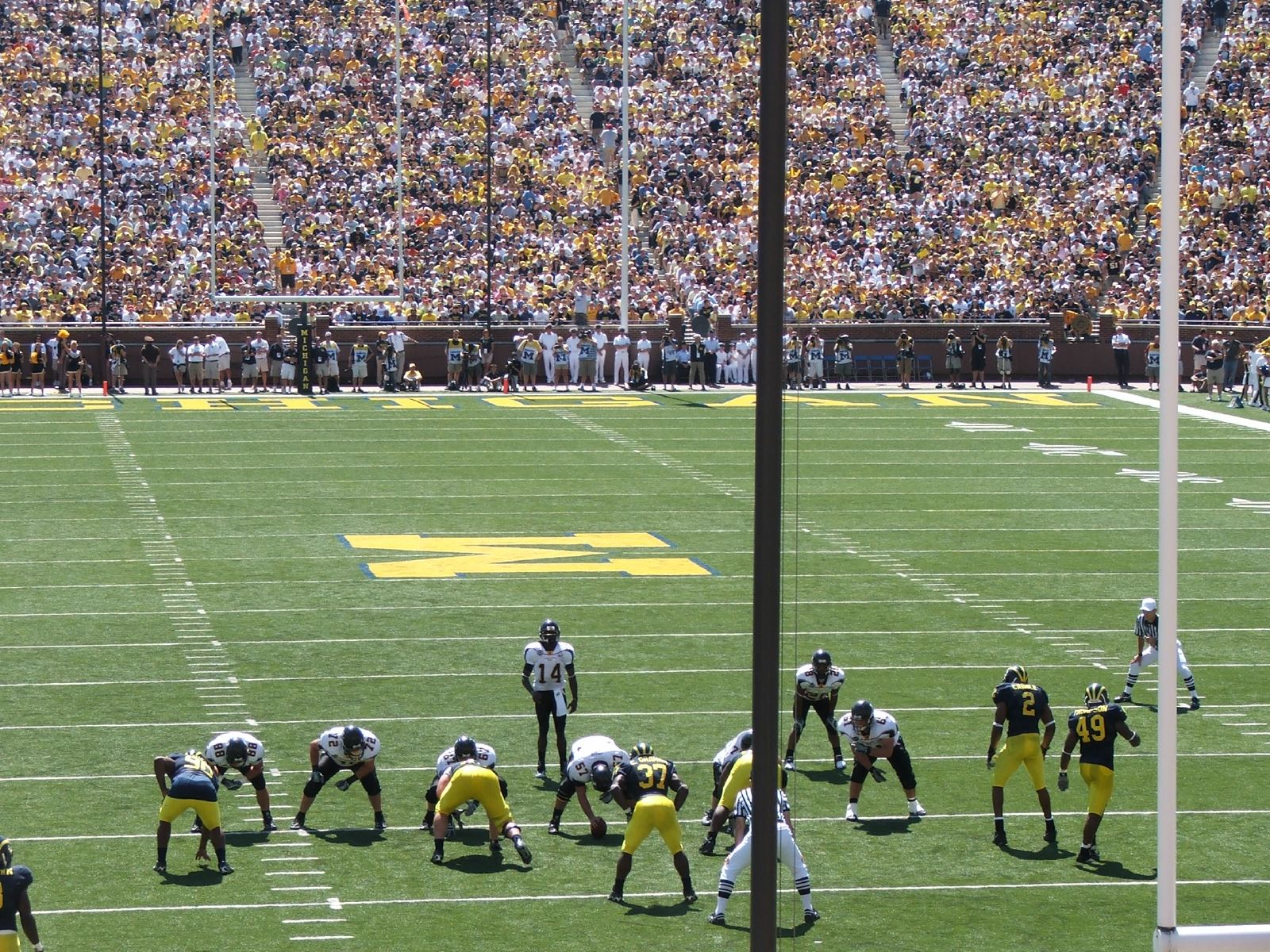 The Appalachian State Mountaineers and Michigan Wolverines are at the line during the en:2007 Appalachian State vs. Michigan football game.